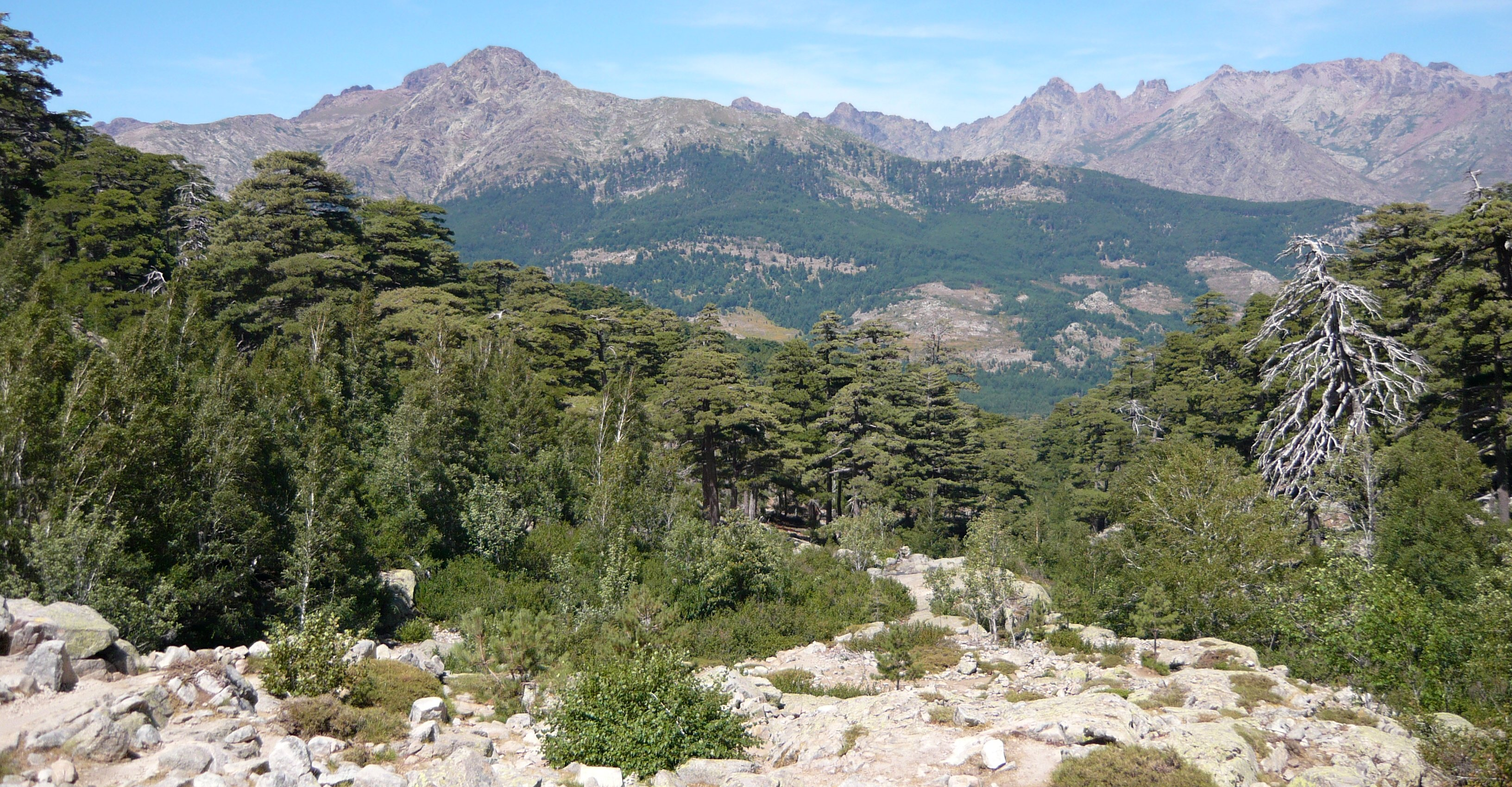 Pinus nigra var. corsicana (syn. P. laricio) in the Forêt de Valdo-Niellu naer Bergerie de Colga, Corsica